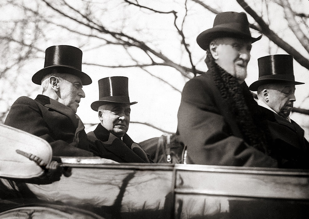 (from left to right) Woodrow Wilson, Warren G. Harding, Joseph Gurney Cannon, and Philander Knox riding in a convertible during Harding's presidential inauguration.